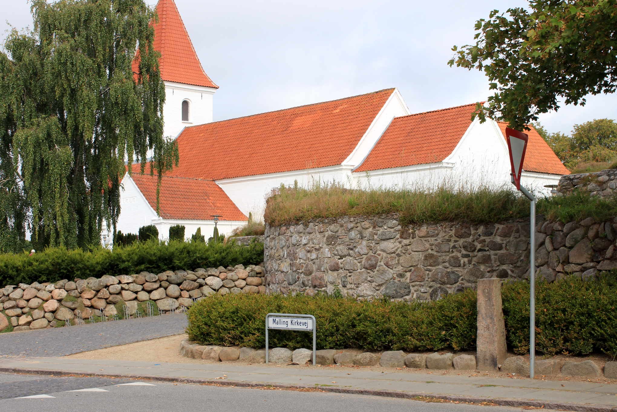 Malling's historical centre: The parish church and a milestone